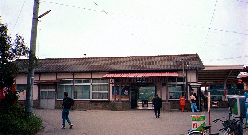 Old building of Iwafune Station on JR East Ryomo Line